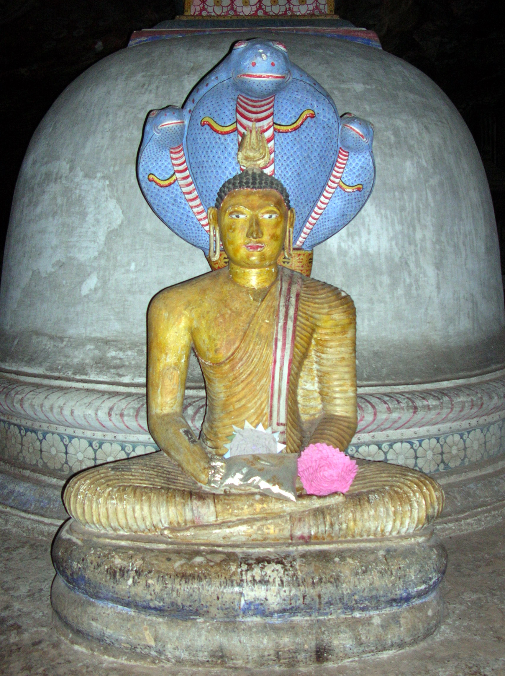 Seated Buddha with a cobra, Dambulla cave temple, Sri Lanka